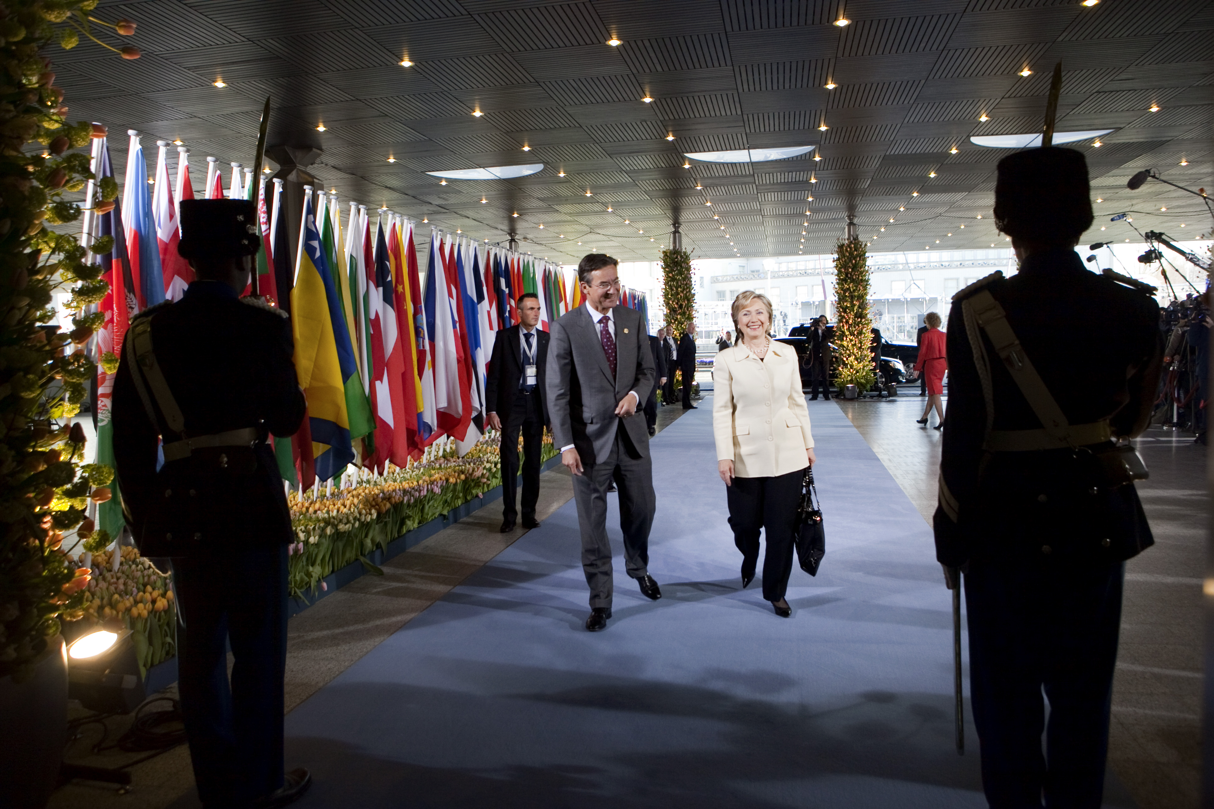 Dutch Minister of Foreign Affairs Maxime Verhagen welcomes U.S. Secretary of State Hillary Rodham Clinton as she arrives at the World Forum Convention Centre in The Hague during the International Conference on Afghanistan March 31, 2009. Over 90 countries joined this conference. [State Department photo]